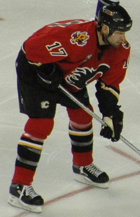 Chris Simon of the Calgary Flames, December 21, 2005